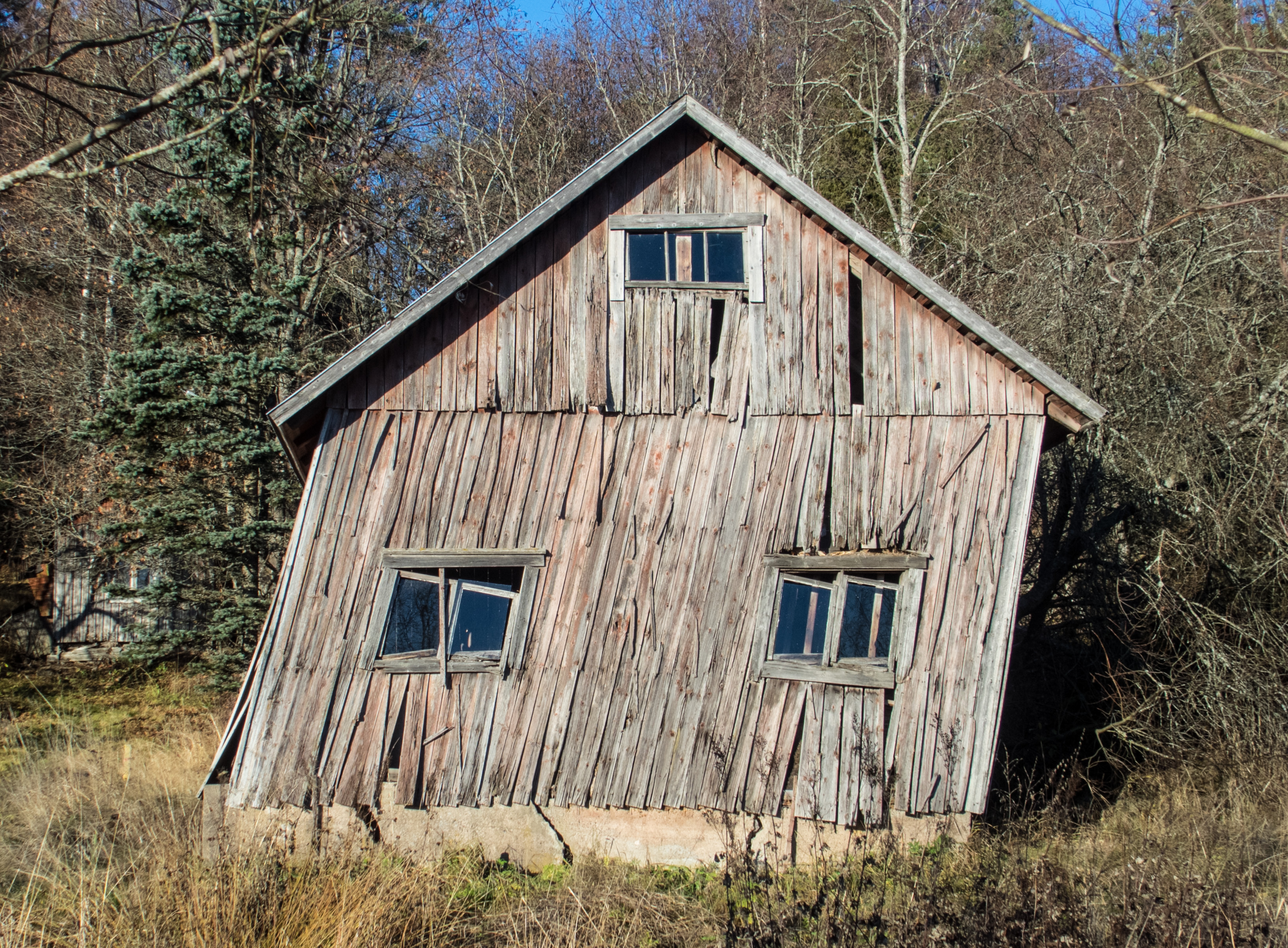 Old wooden building about to collapse on Turilantie near Vaskio, Salo, Finland.